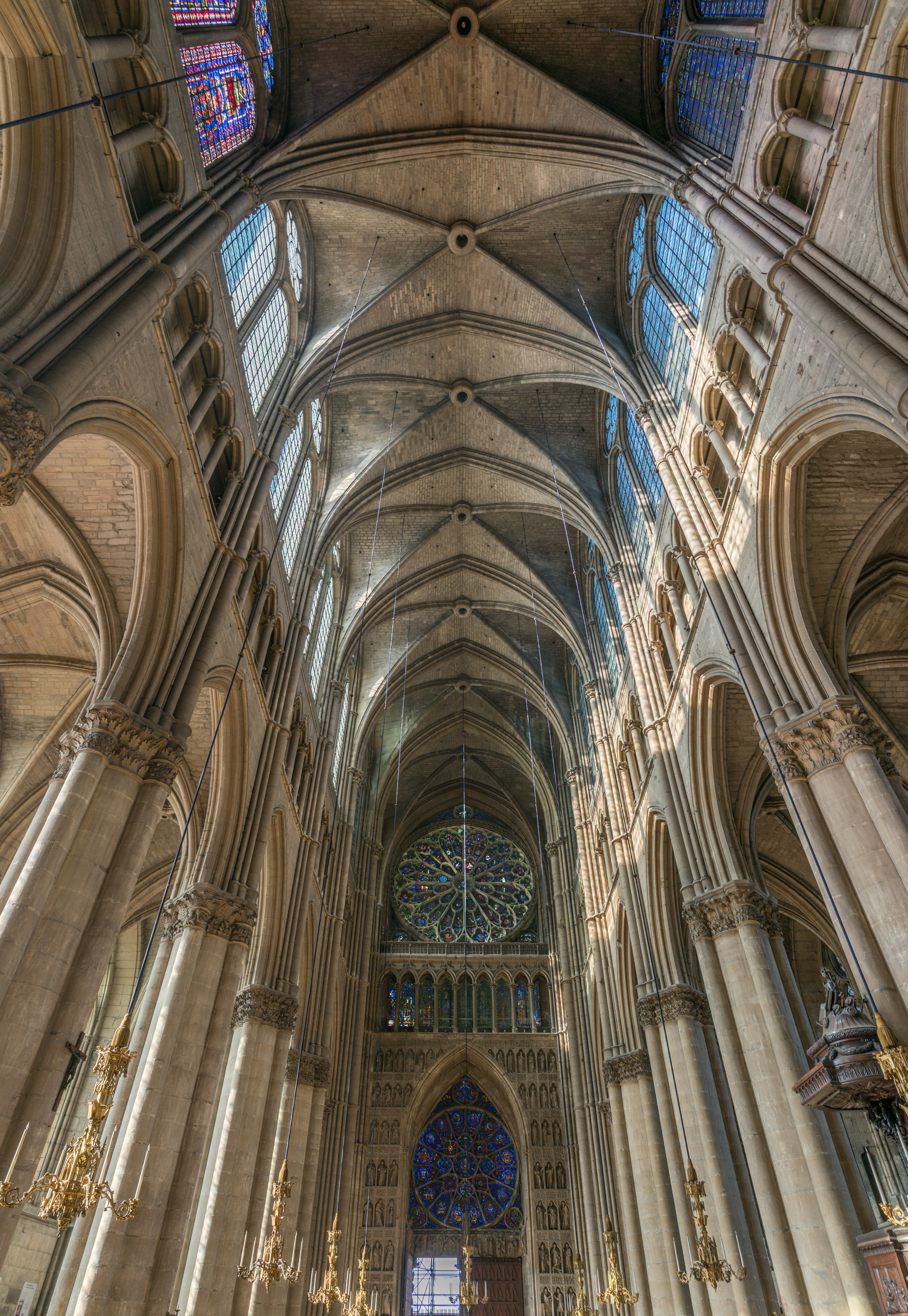 The nave of Reims Cathedral, the seat of the Archdiocese of Reims. The church was the traditional location of the crowning of the French kings.